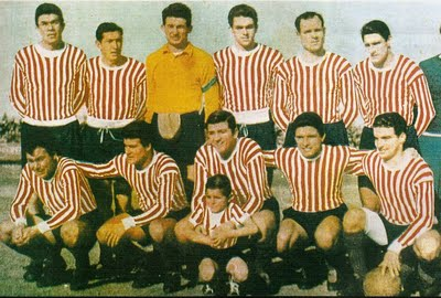 The Los Andes team that in 1960 got the last championship for the club.